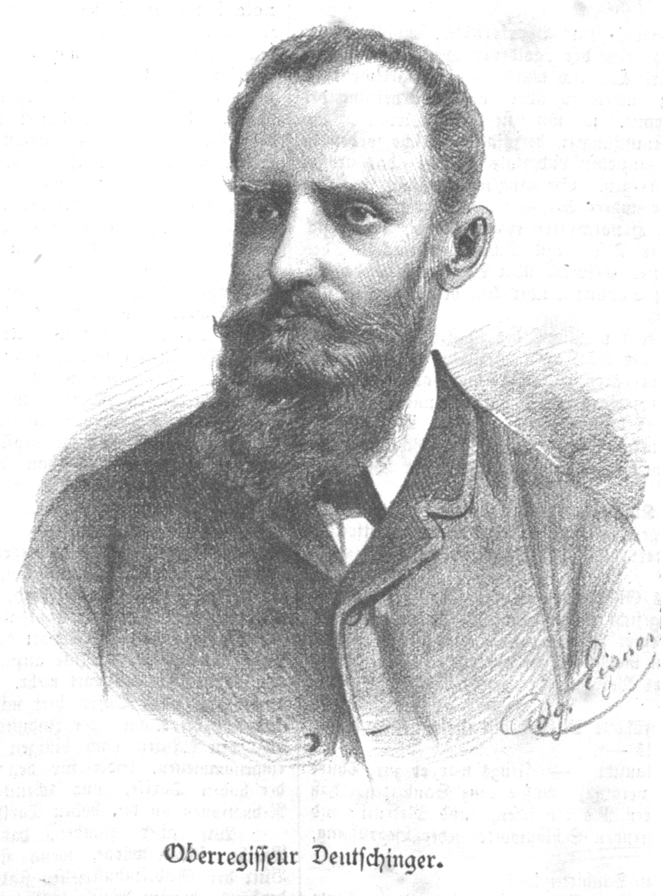 Portrait of senior director ("Oberregisseur") Franz Deutschinger (1834-1908) from a theater in Mainz, Germany.